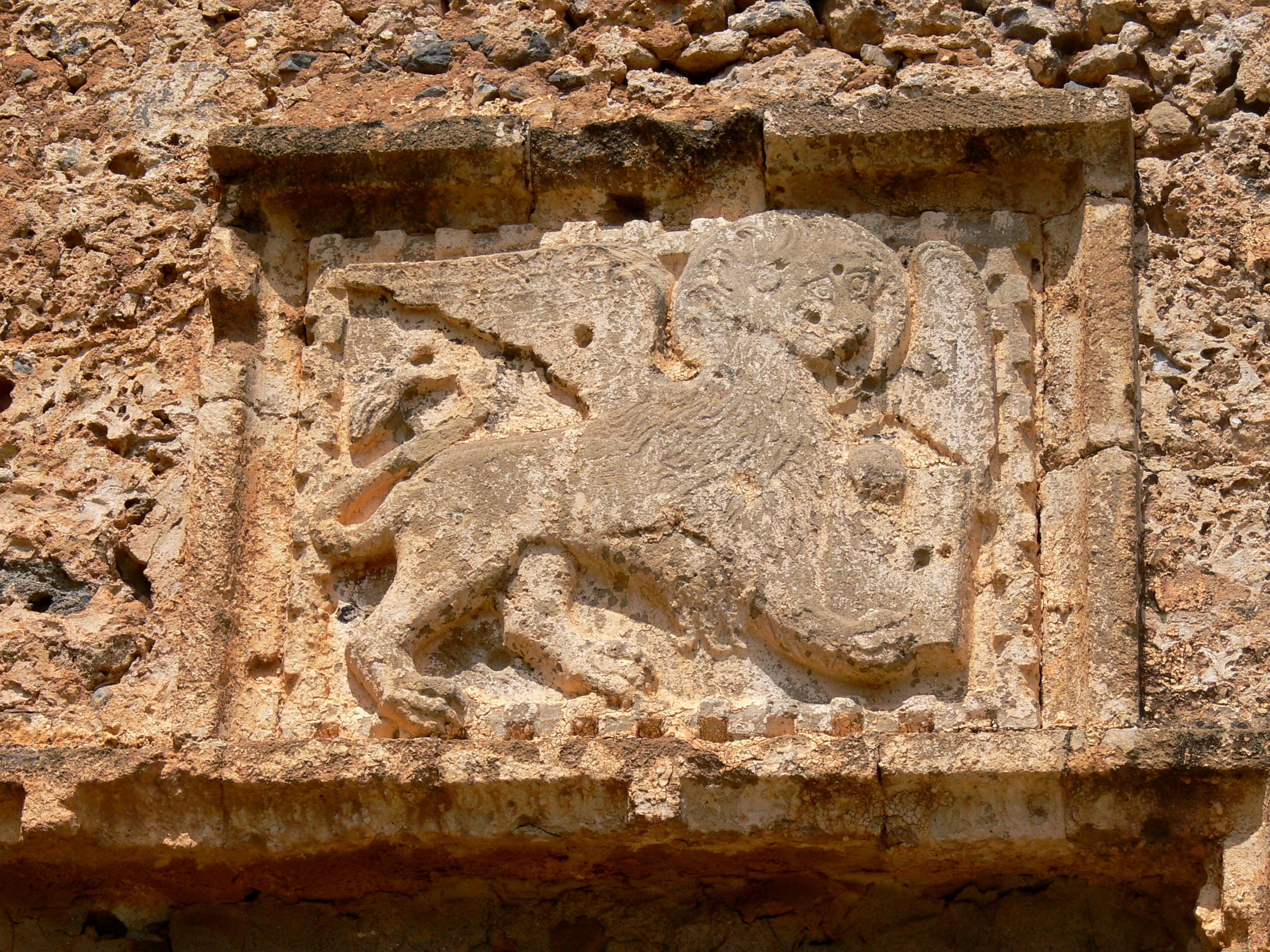 Frangokastello, Crete. Venetian Lion of Saint Mark at the gate of the fortress.